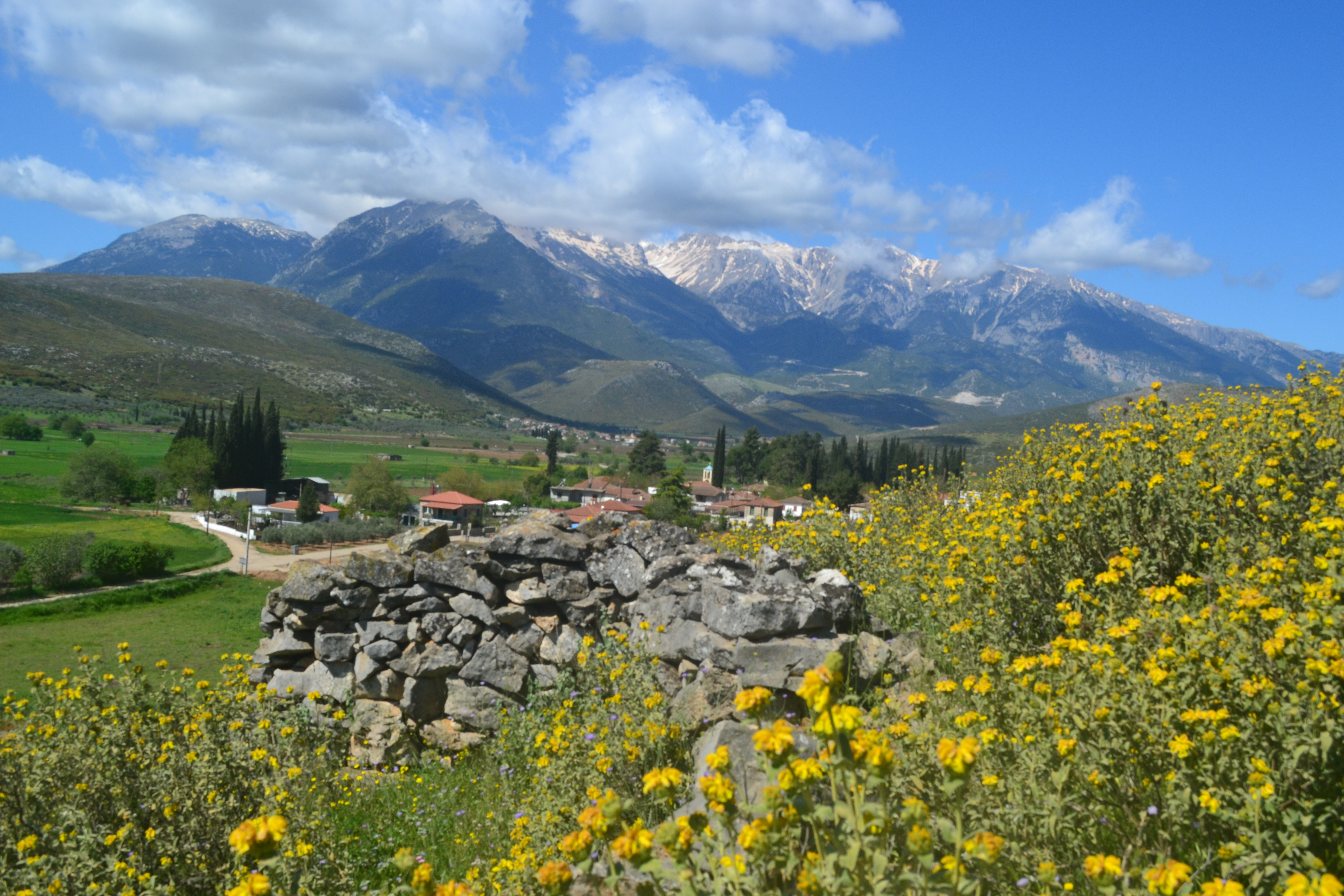 Vasilika_75